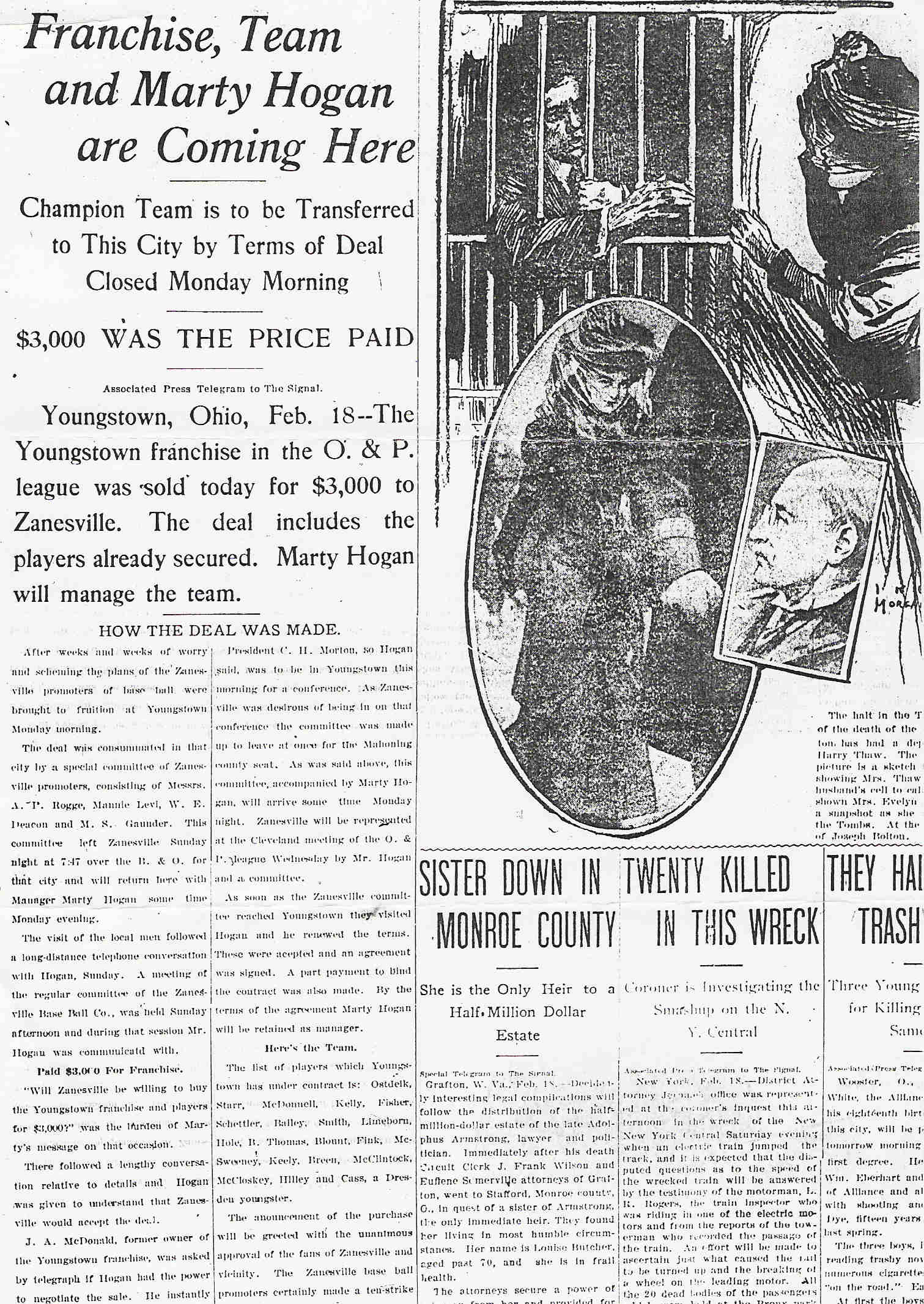 Description: Zanesville Signal, Zanesville, Ohio, February 18, 1907, p. 1 Author: Zanesville Signal Source: Muskingham County Library System